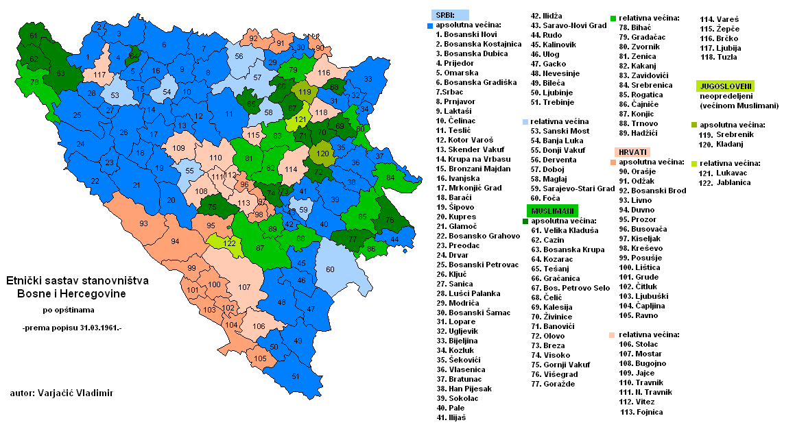 Ethnic map of Bosnia and Herzegovina from 1961. The author is Vladimir Varjarcic, and the source is the 1961 yugoslav population census. Map is uploaded on the Serbian Wikipedia, and this is the exact same image.